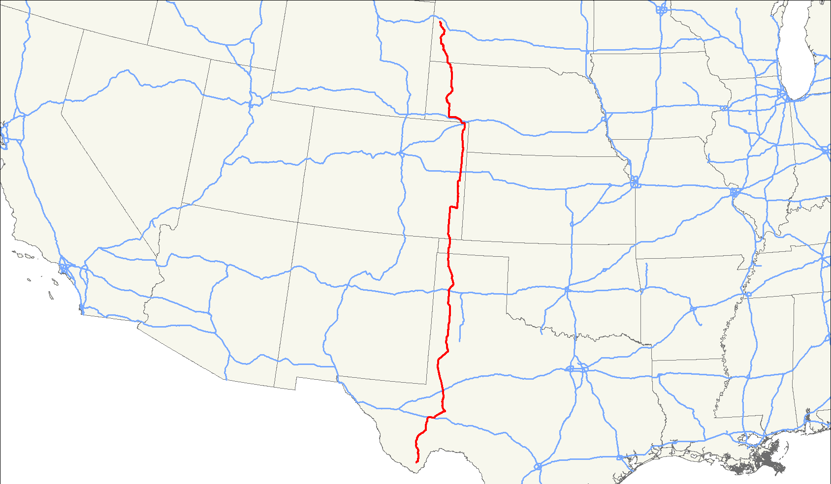 Map of U.S. Route 385 — a north-south route across the High Plains of the United States.